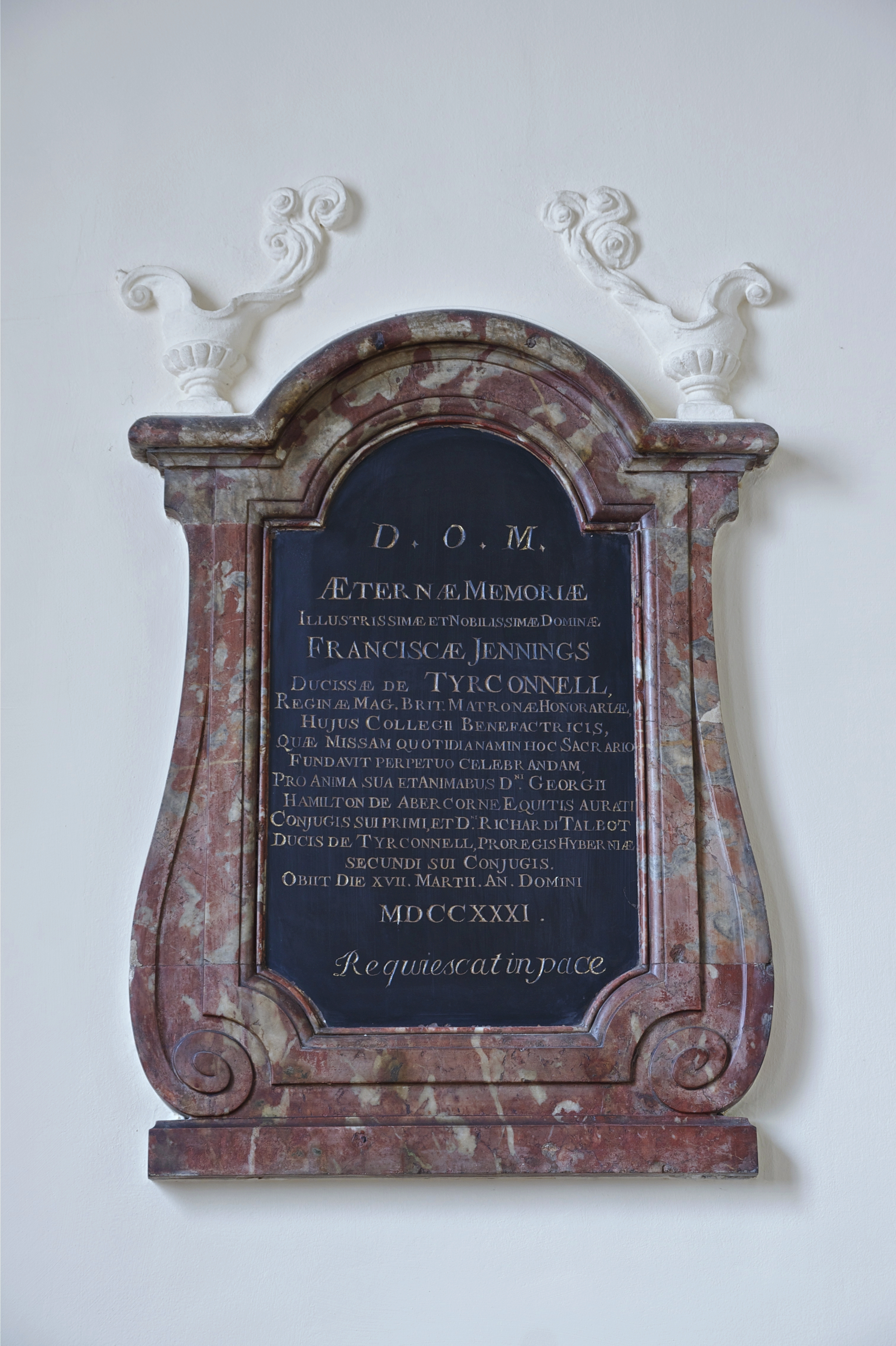 Plaque to the memory of Frances Jennings (la Belle Jennings), maid of honour (Matrona Honoraria) to the Queen, in the chapel of the former Scots College in Paris. The plaque is also a monument to the memory of her husbands, sir George Hamilton, and Richard Talbot, 1st Earl of Tyrconnell.